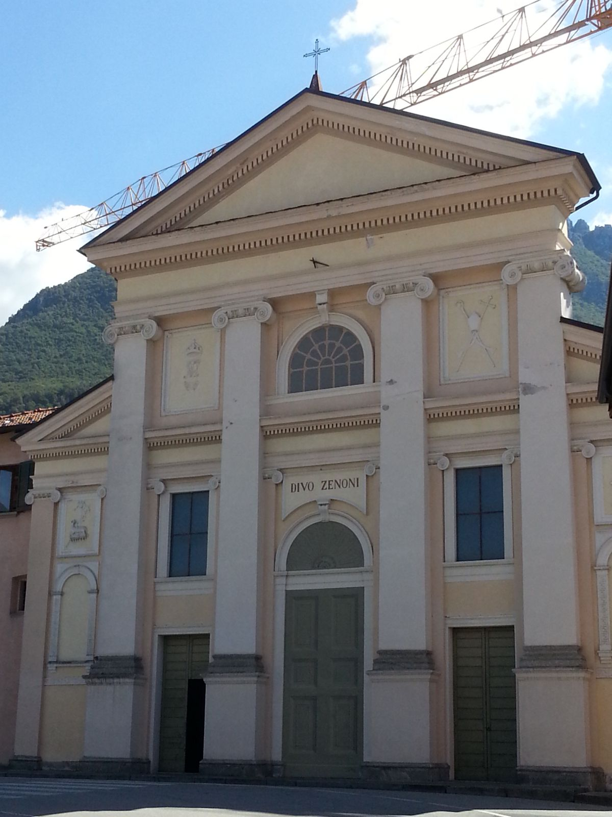 Italy, Lombardy, Mandello del Lario (LC): church of san zenone in Piazza Vittoria